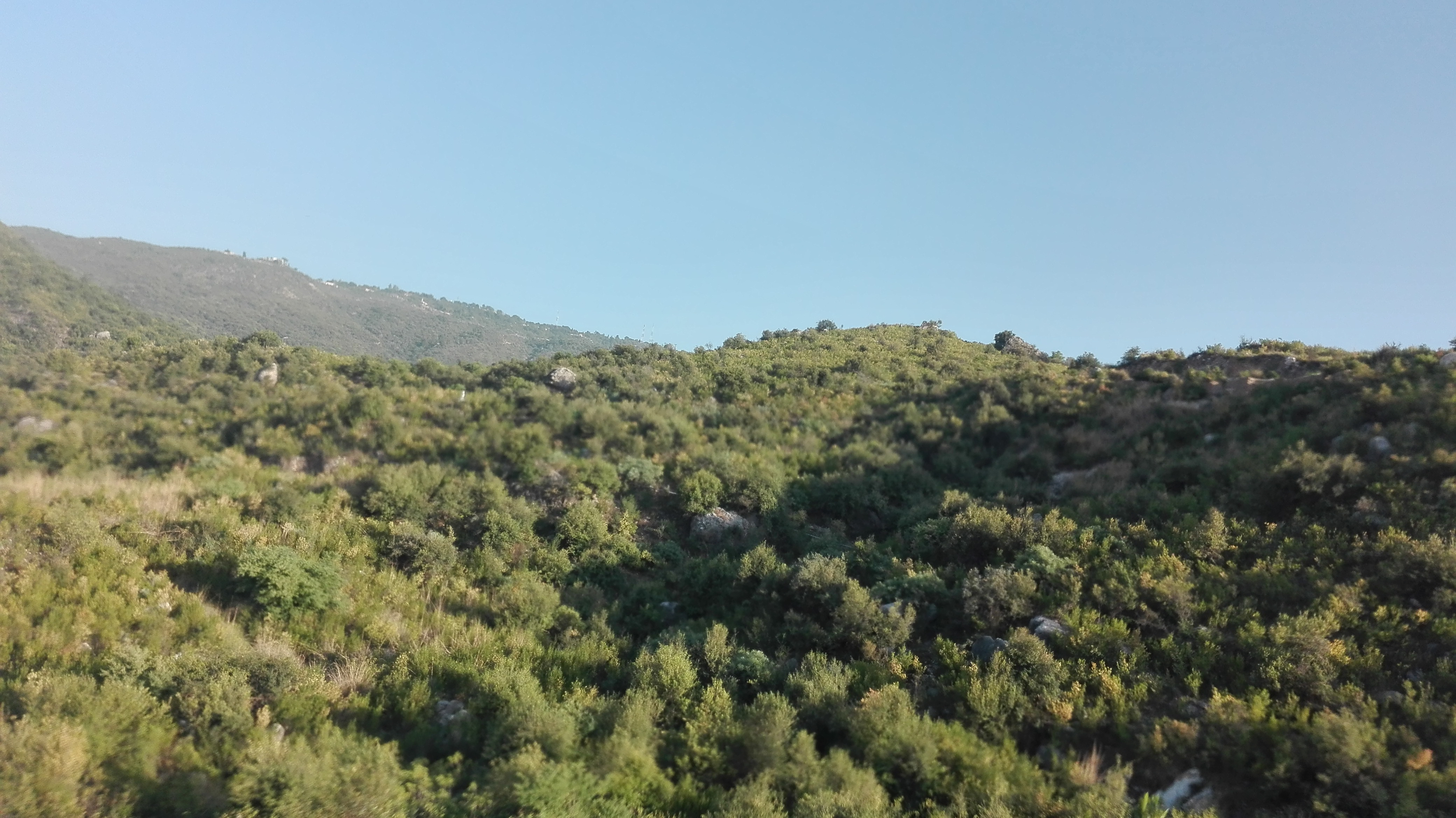 Sakesar Mountains with beautiful greenery